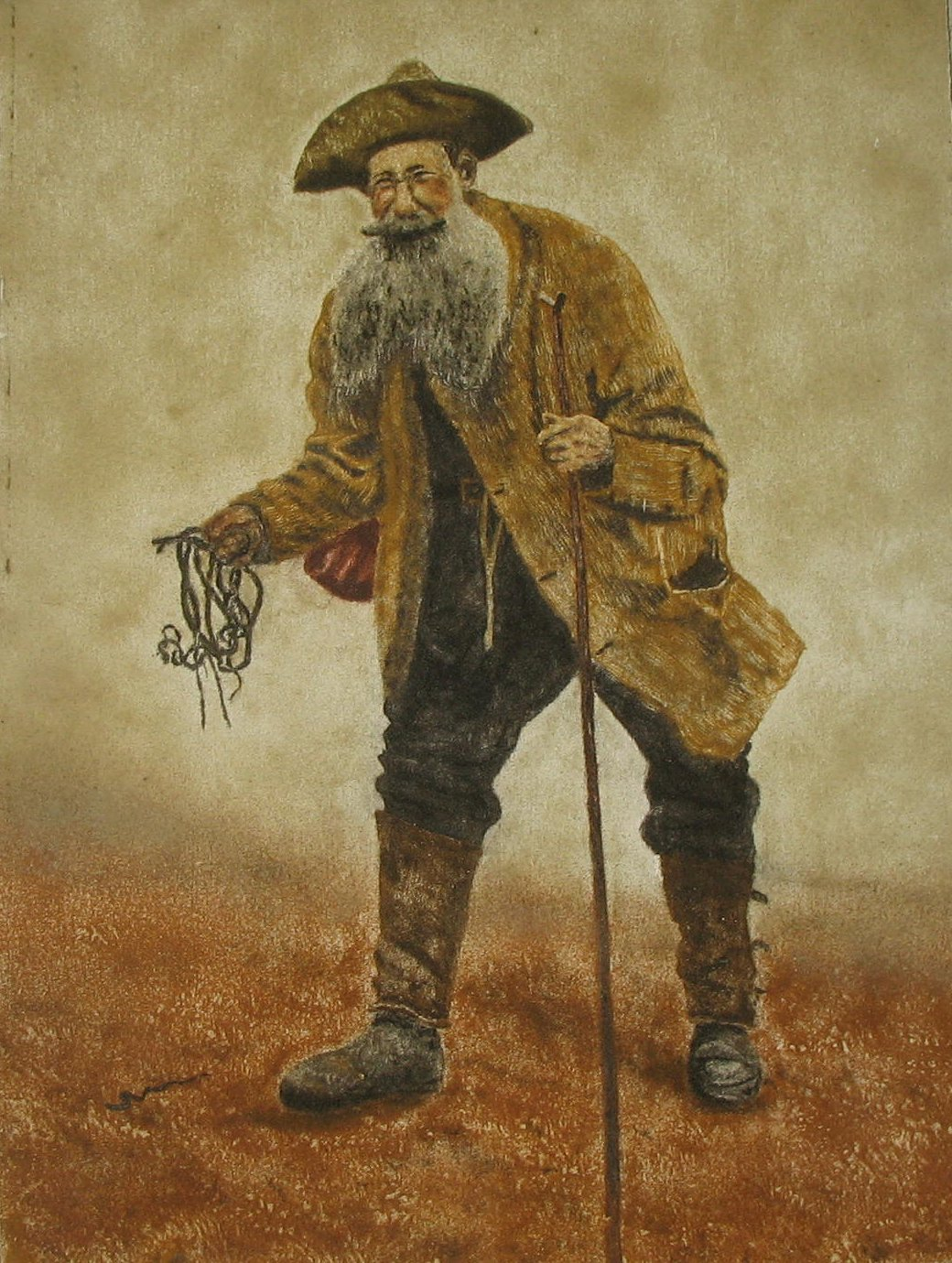 Sand Painting of "Brusher Mills, a late 19th c. New Forest snake catcher" by Environmental sand artist Brian Pike using natural coloured sands as 'paint' discarded feathers as 'brushes' and plywood offcuts as a 'canvass'. size 64cms by 46cms - Artists Collection